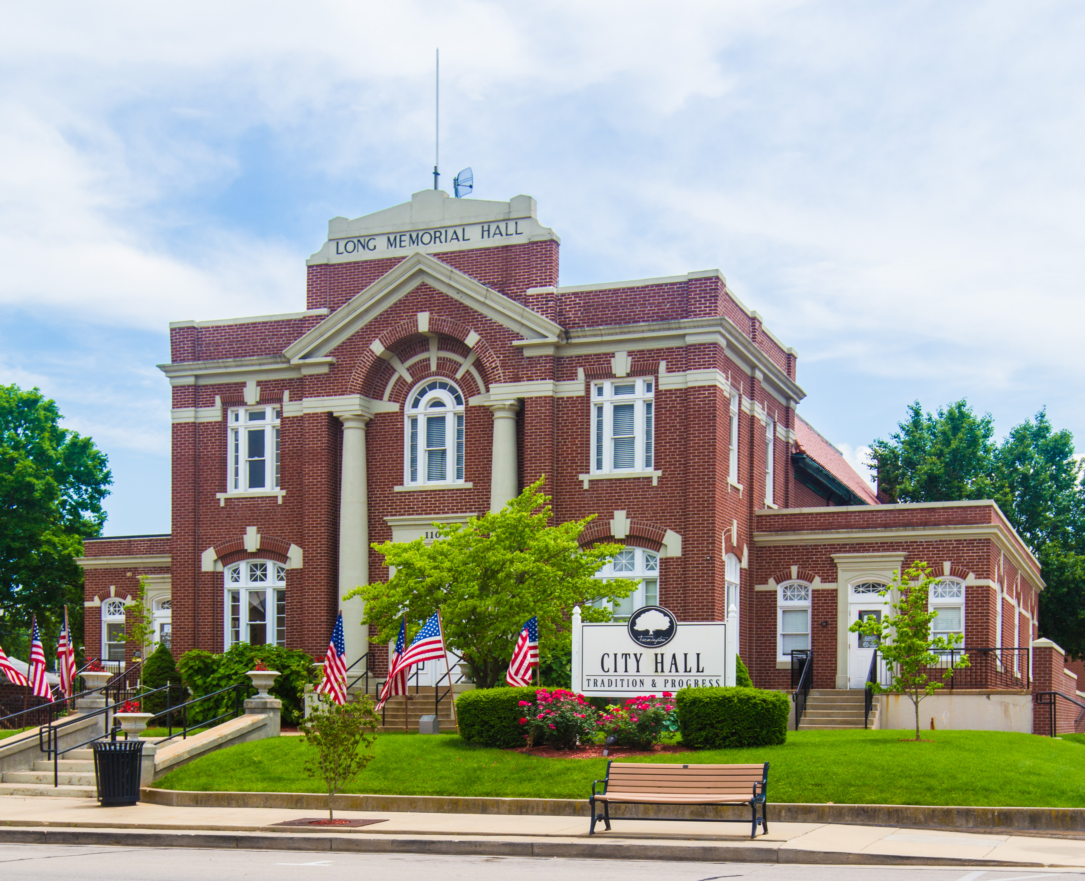 Farmington, Missouri